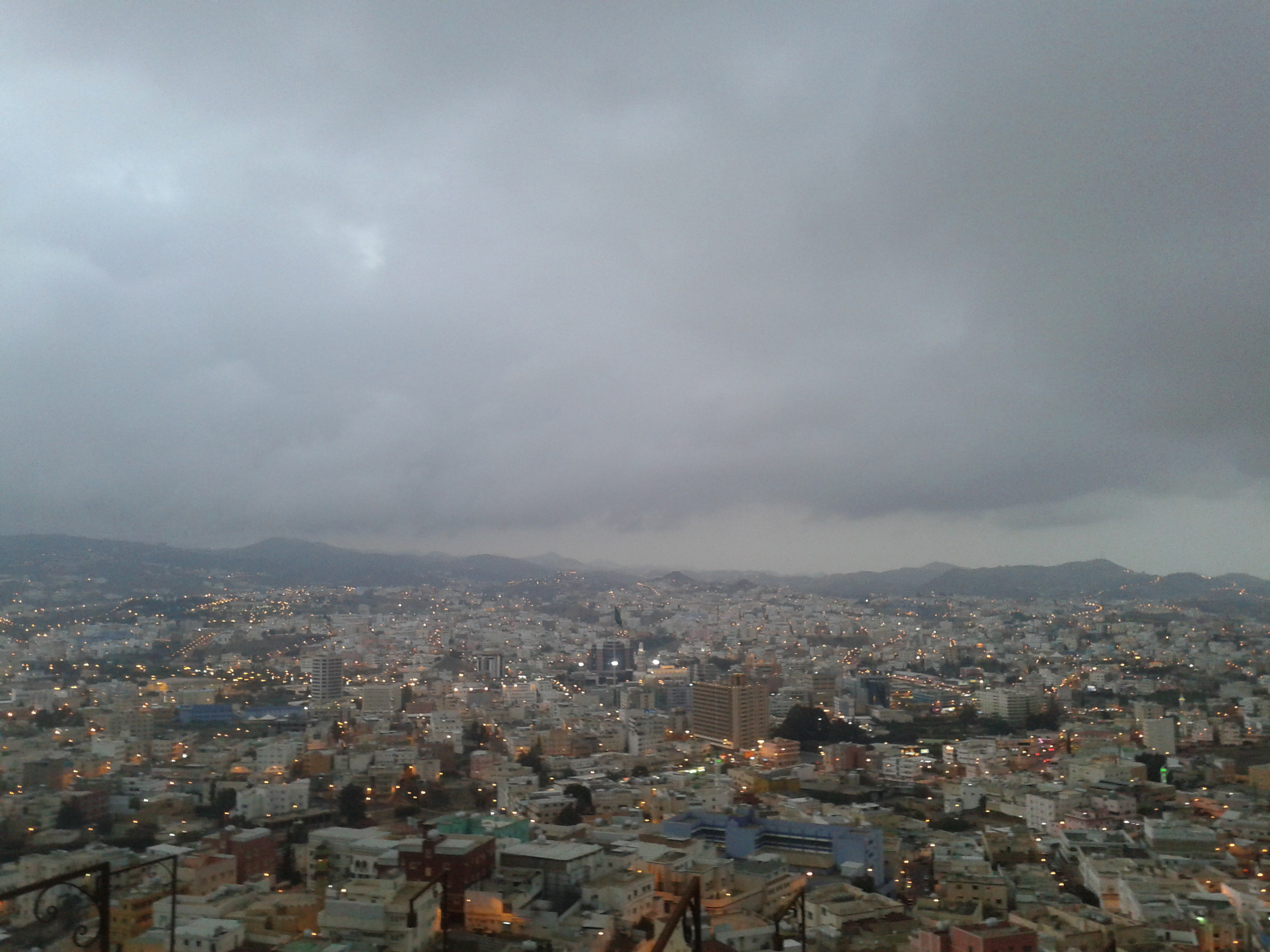 Abha city